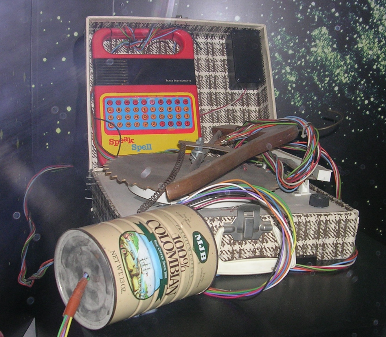 E.T.'s Communicator from the film E.T. Taken at Universal Studios Hollywood.